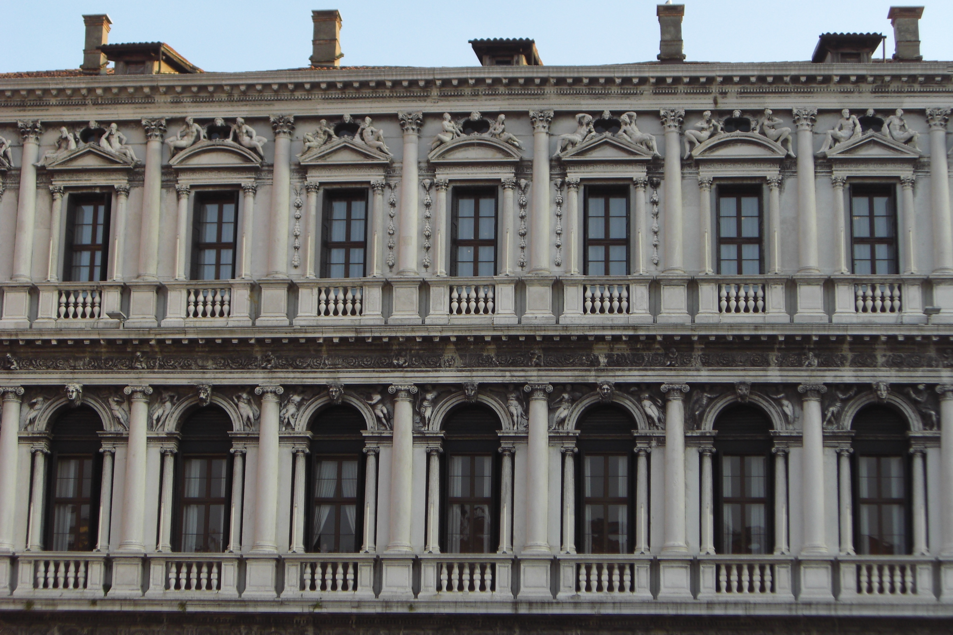 The section of the Procuratie nuove built following Scamozzi's design